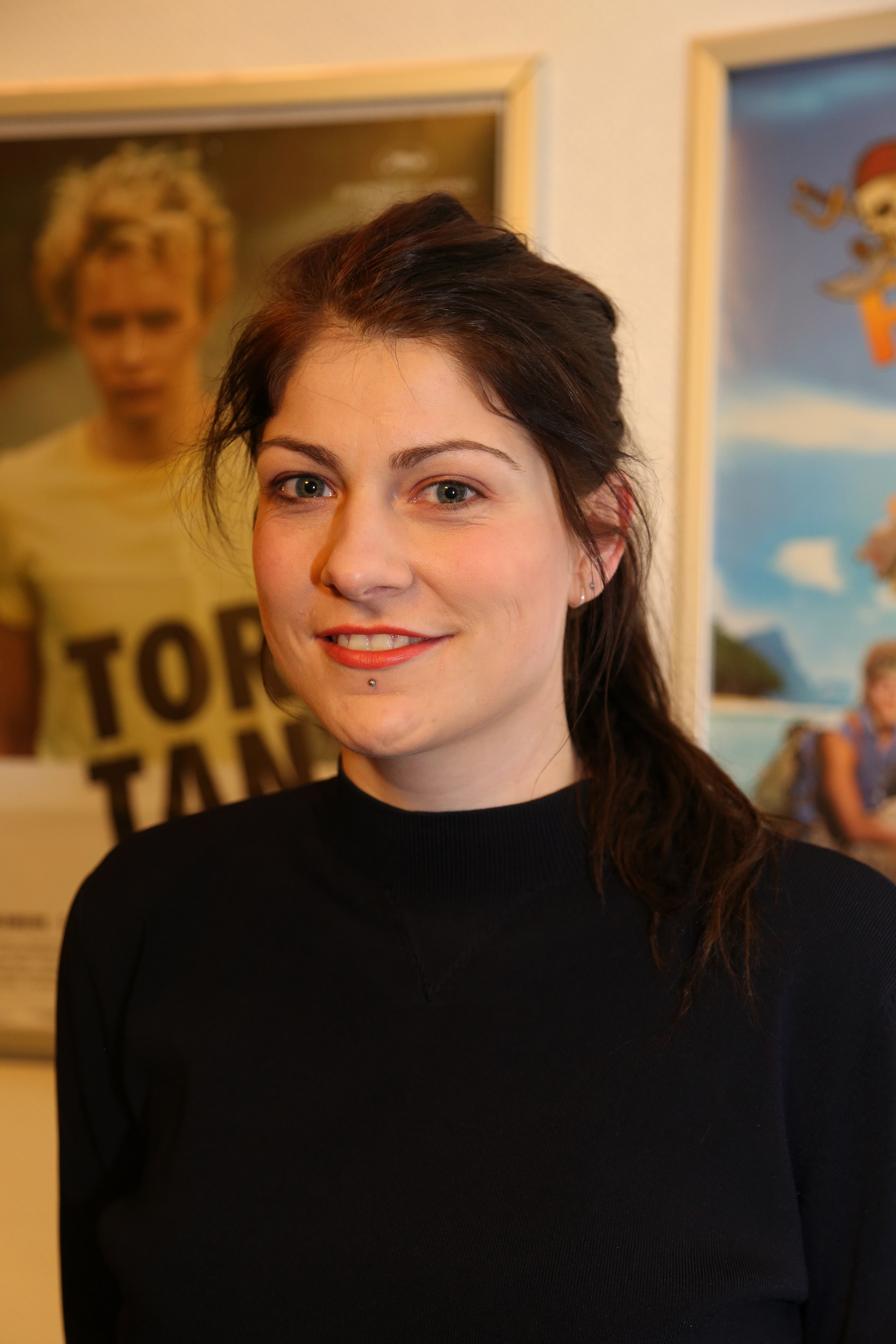 German film director and screenwriter Katrin Gebbe presenting her motion picture Tore tanzt at the Apollo-Kino Center Ibbenbüren in Ibbenbüren, Kreis Steinfurt, North Rhine-Westphalia, Germany.